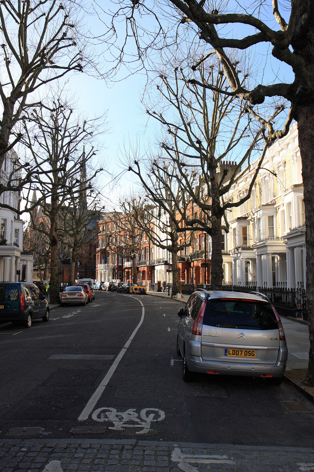 Philbeach Gardens The northern end of this crescent, the houses on which were built in 1876, seen from Warwick Road. The parish church of St. Cuthbert with St. Matthias can be seen around the corner.